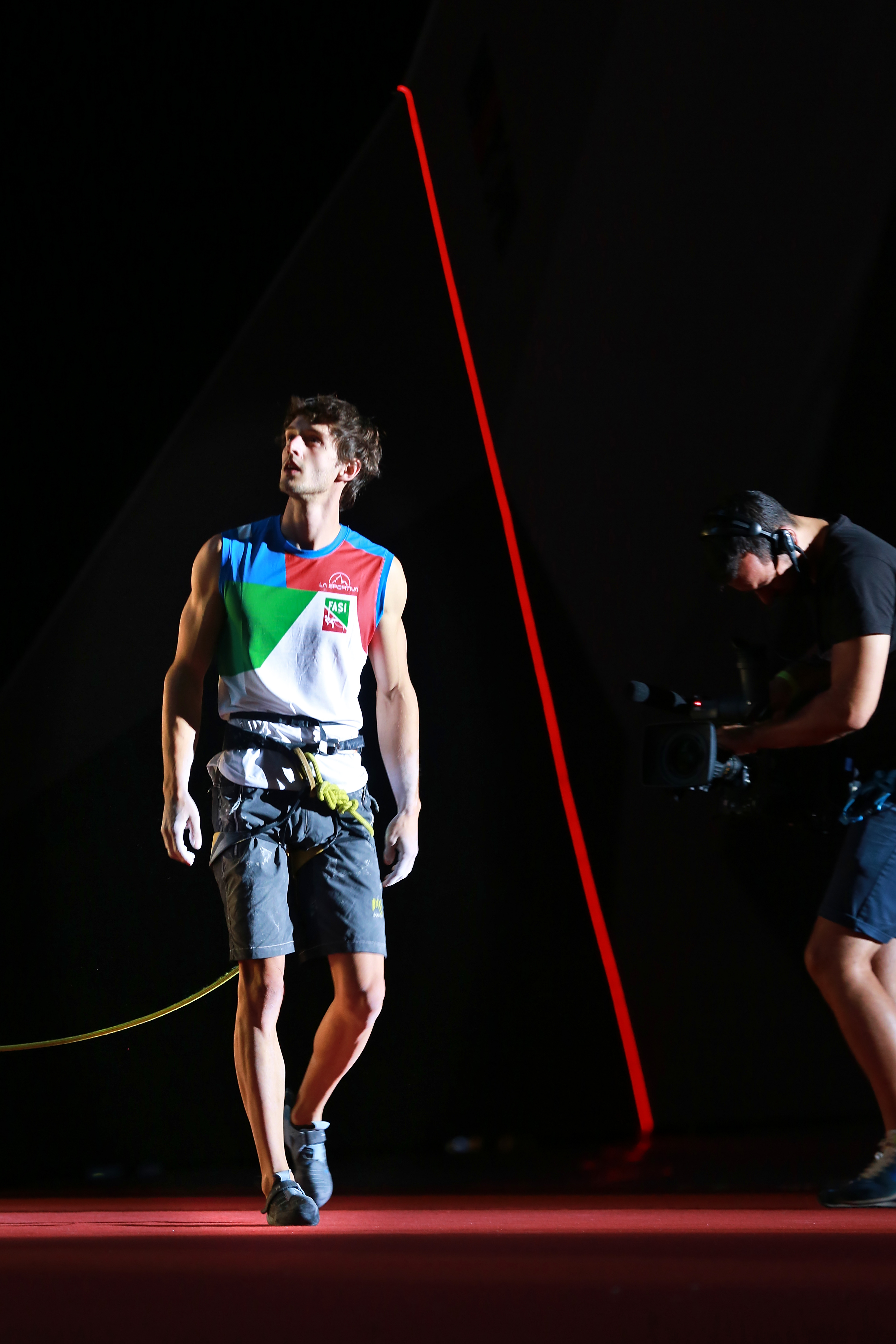 Climbing World Championships 2018 Lead Semi Vettorata